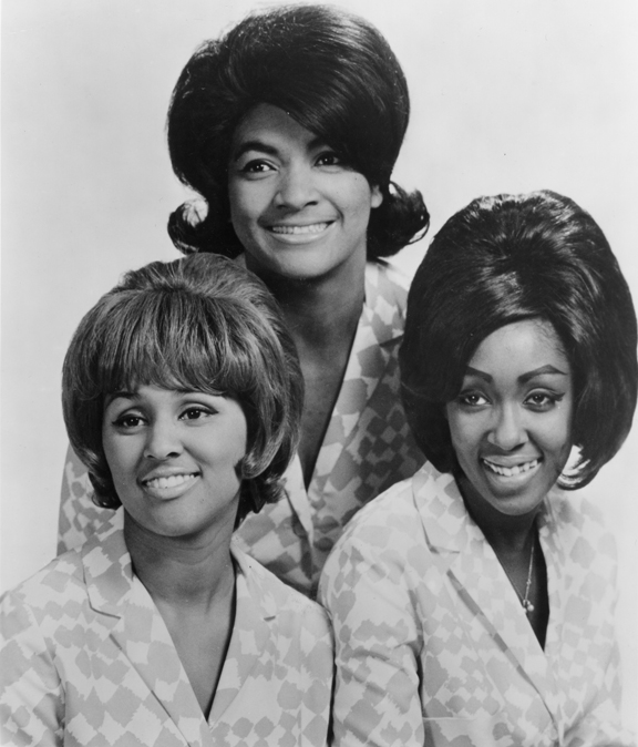 The Blossoms in 1966 (clockwise from top: Fanita James, Jean King, and Darlene Love)Trade ad for The Blossoms's single "My Love, Come Home".To better adapt it to his respective Wikipedia article, the ad was cropped and cleaned in a graphics editing program. The original can be viewed at the source below.